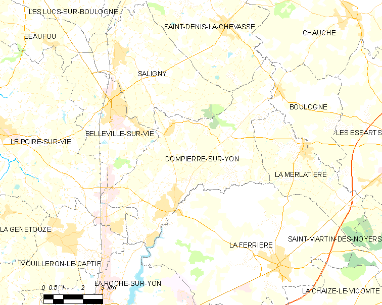 Map of French municipality Dompierre-sur-Yon